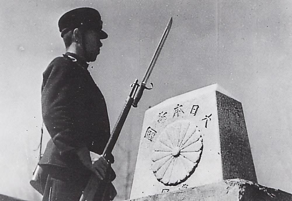 Border Security of the 50th parallel of north latitude in Karafuto